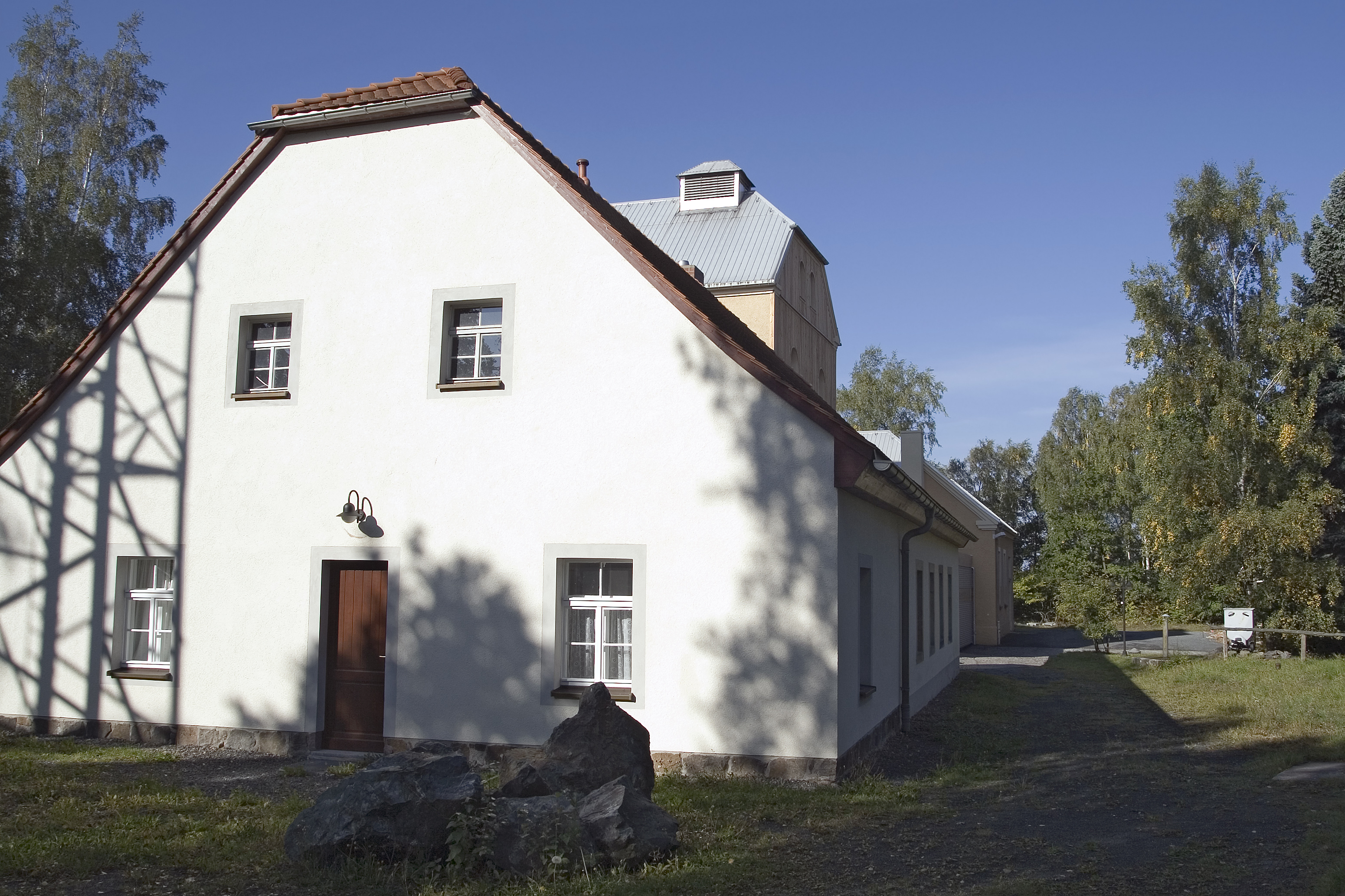 Drei-Brüder-Schacht: former underground power station in Zug (Freiberg, Saxony)